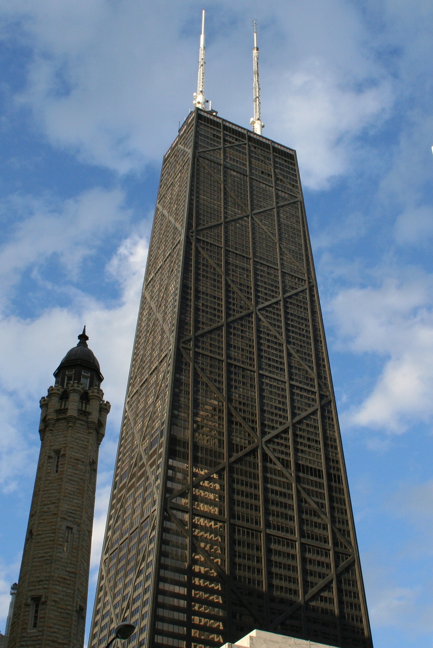 A photo I took of the Hancock Tower on a recent trip to Chicago in September 2006. Path2k6